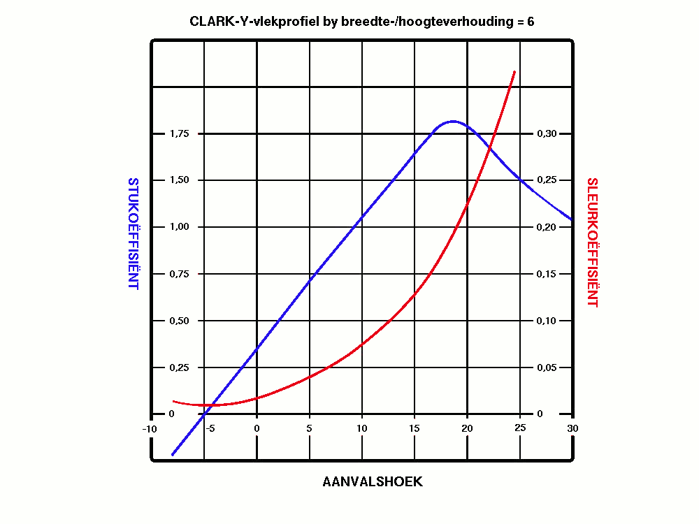 Lift and Drag curves for a typical airfoil.